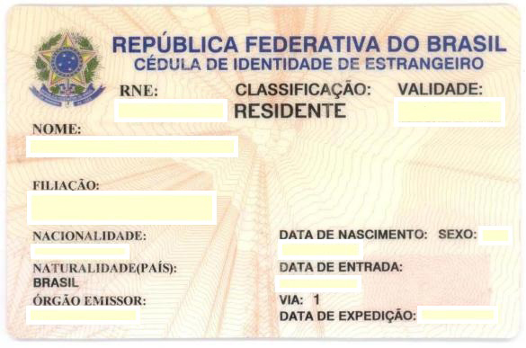 Model of Foreigner Identity Card (CIE) issued by the Brazilian authorities